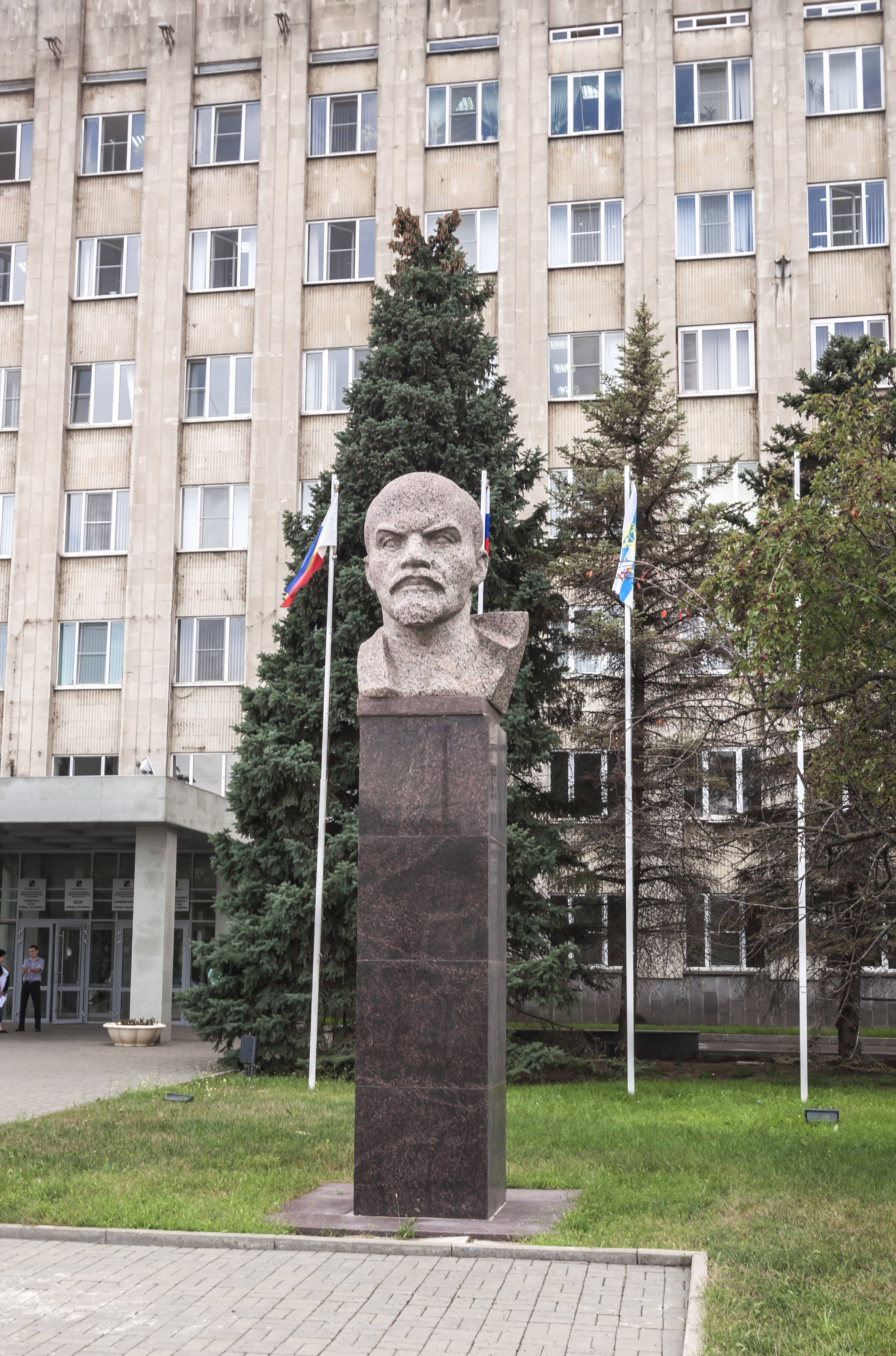 Monument to Lenin: Lenin Street, Taganrog, Rostov region